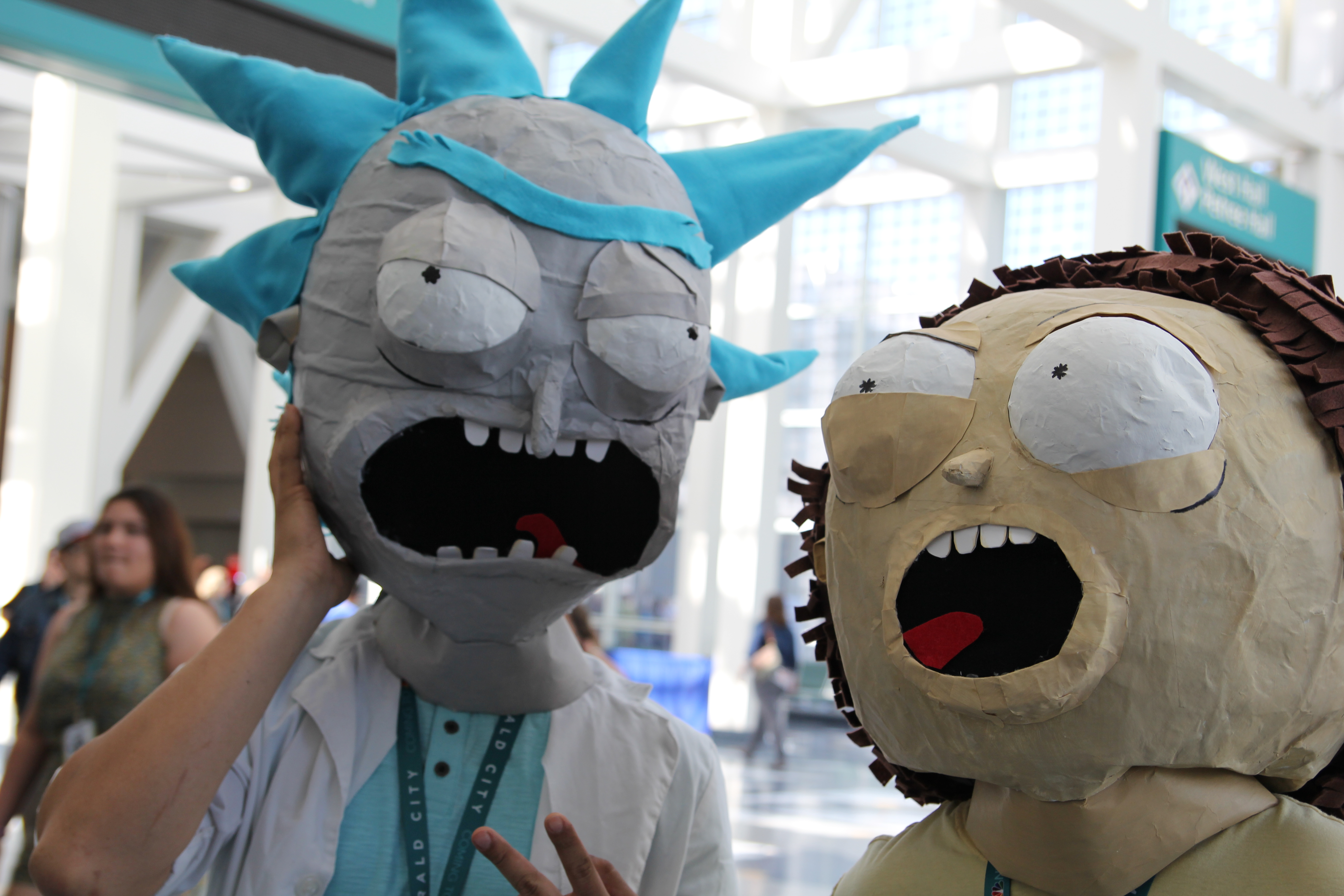 Wondercon 2016 - Rick and Morty Cosplay Cosplay at WonderCon 2016.